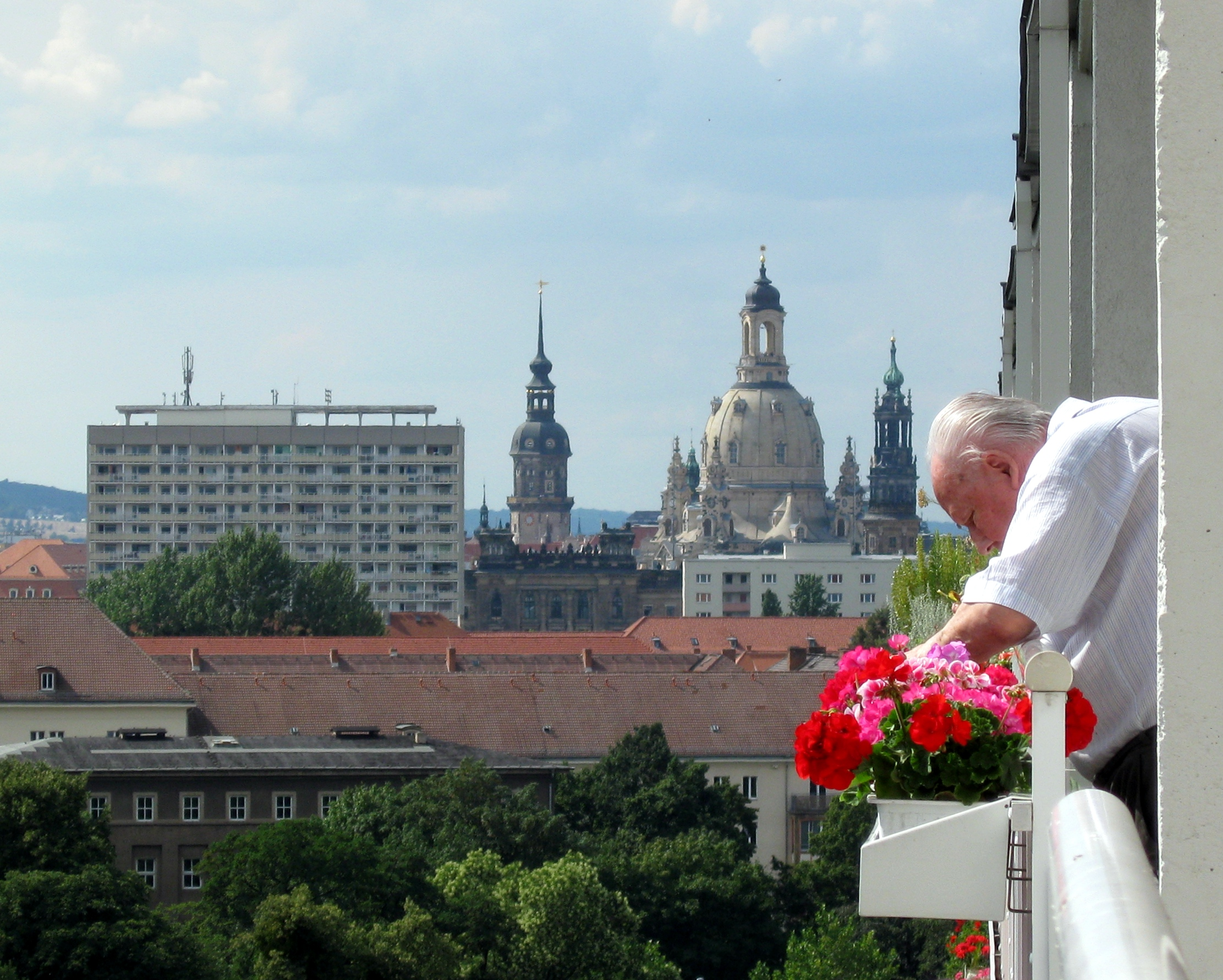 Dresden Skyline + good neighbourhood